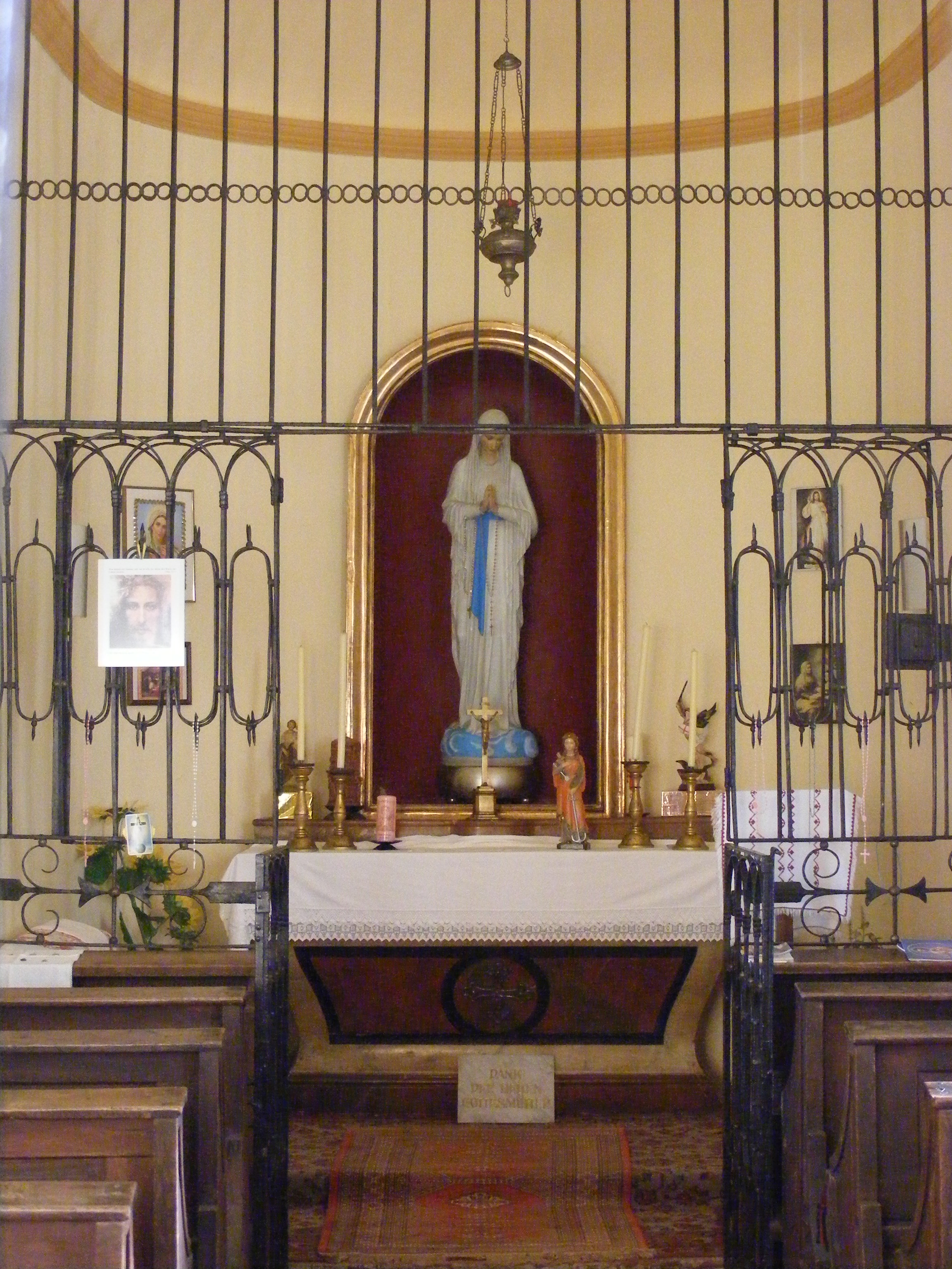 Philomena Chapel, Salzburg